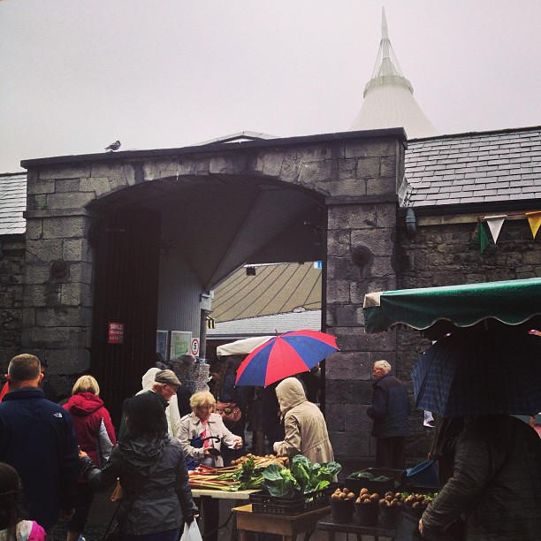 Green grocer at the Limerick Milk Market